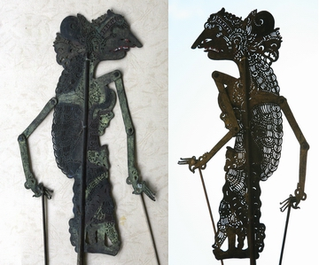 Putri Ismayawati, wayang kulit figure from the wayang shadow play Serat Menak Sasak